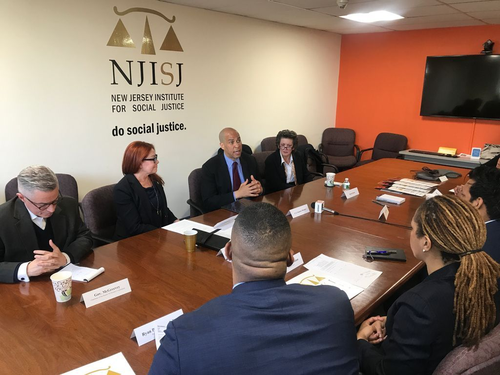 Excited to announce that NJ Assemblywoman @AswLopez is introducing a bill in the New Jersey Legislature modeled after my criminal justice reform bill – the Diginity for Incarcerated Women Act. Looking forward to seeing this become law!